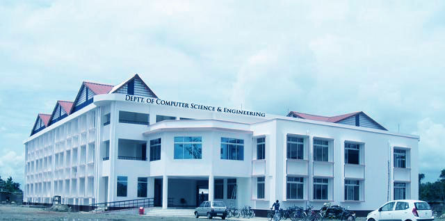 Deppt of CSE, Tezpur University,2009.